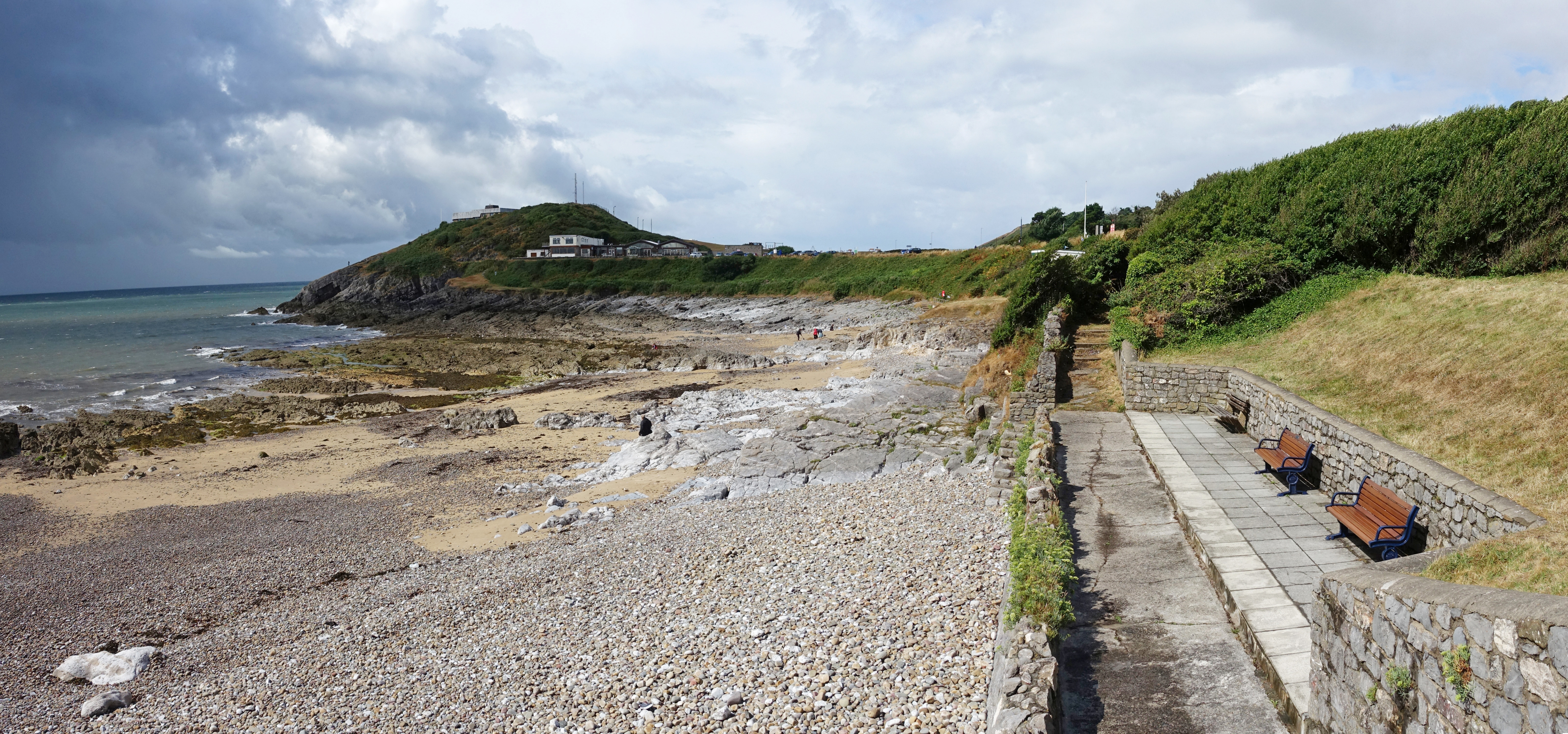 Bracelet Bay in Mumbles.